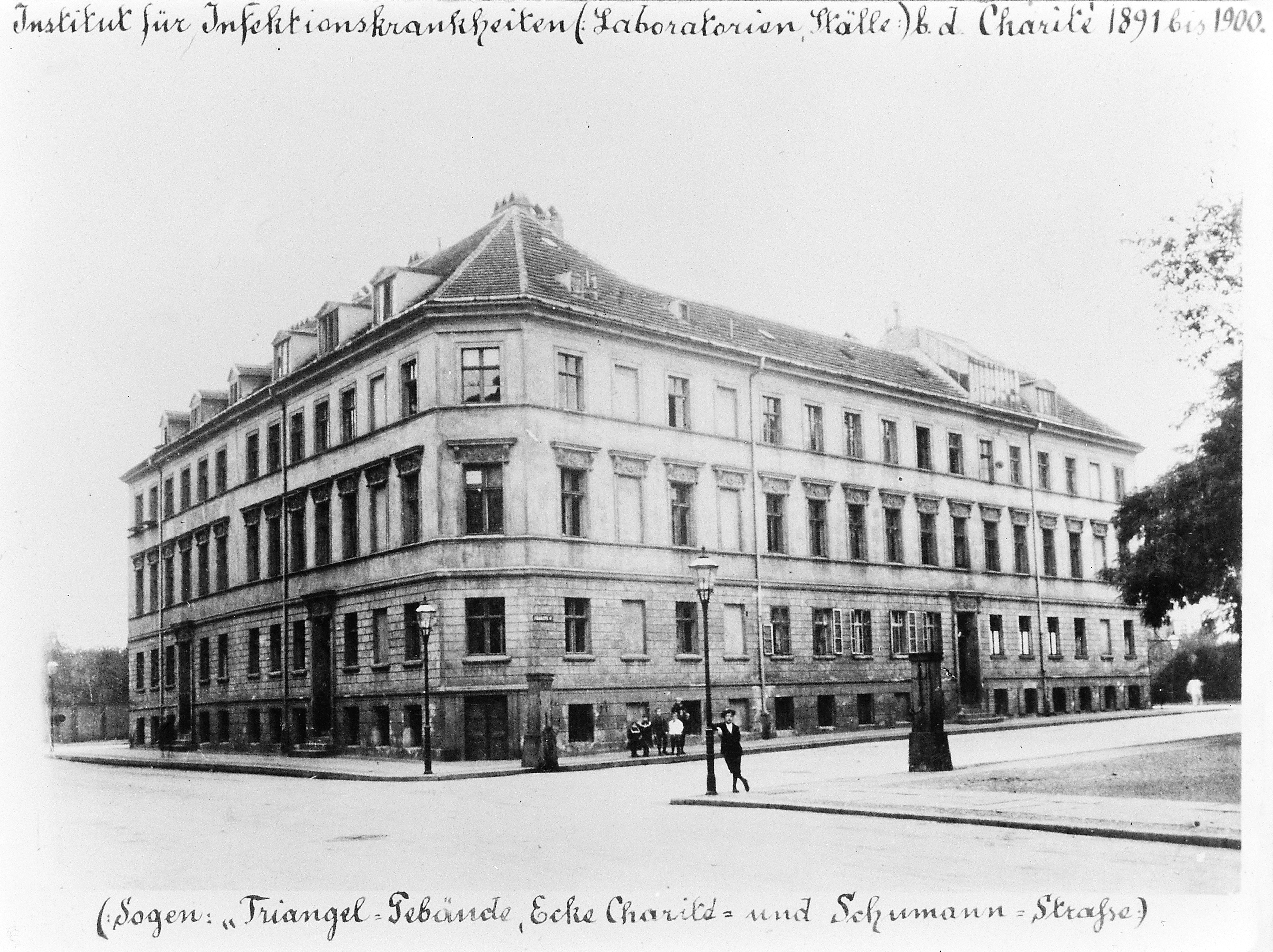 Robert Koch's Insitute, in which Paul Ehrlich worked. The old building. Wellcome Images Keywords: Germany; Institutions